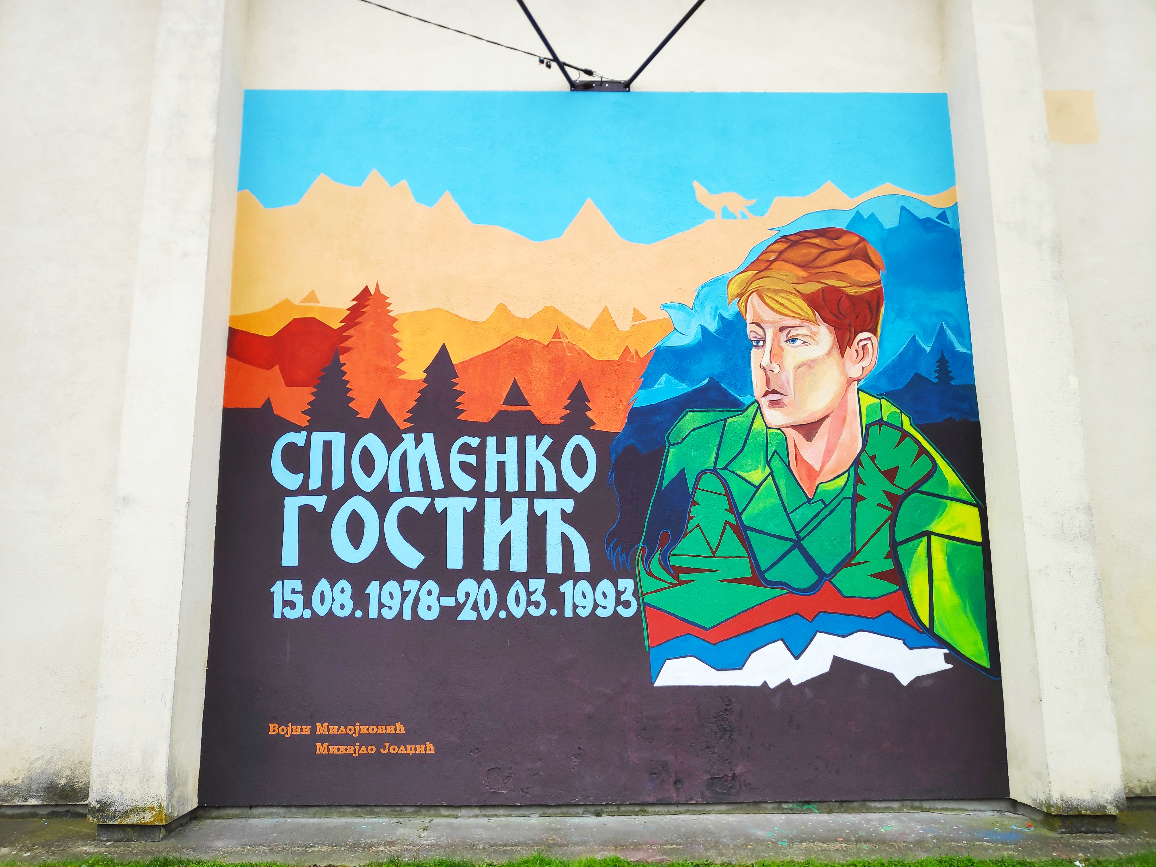 Spomenko Gostić graffiti in Kozarska Dubica